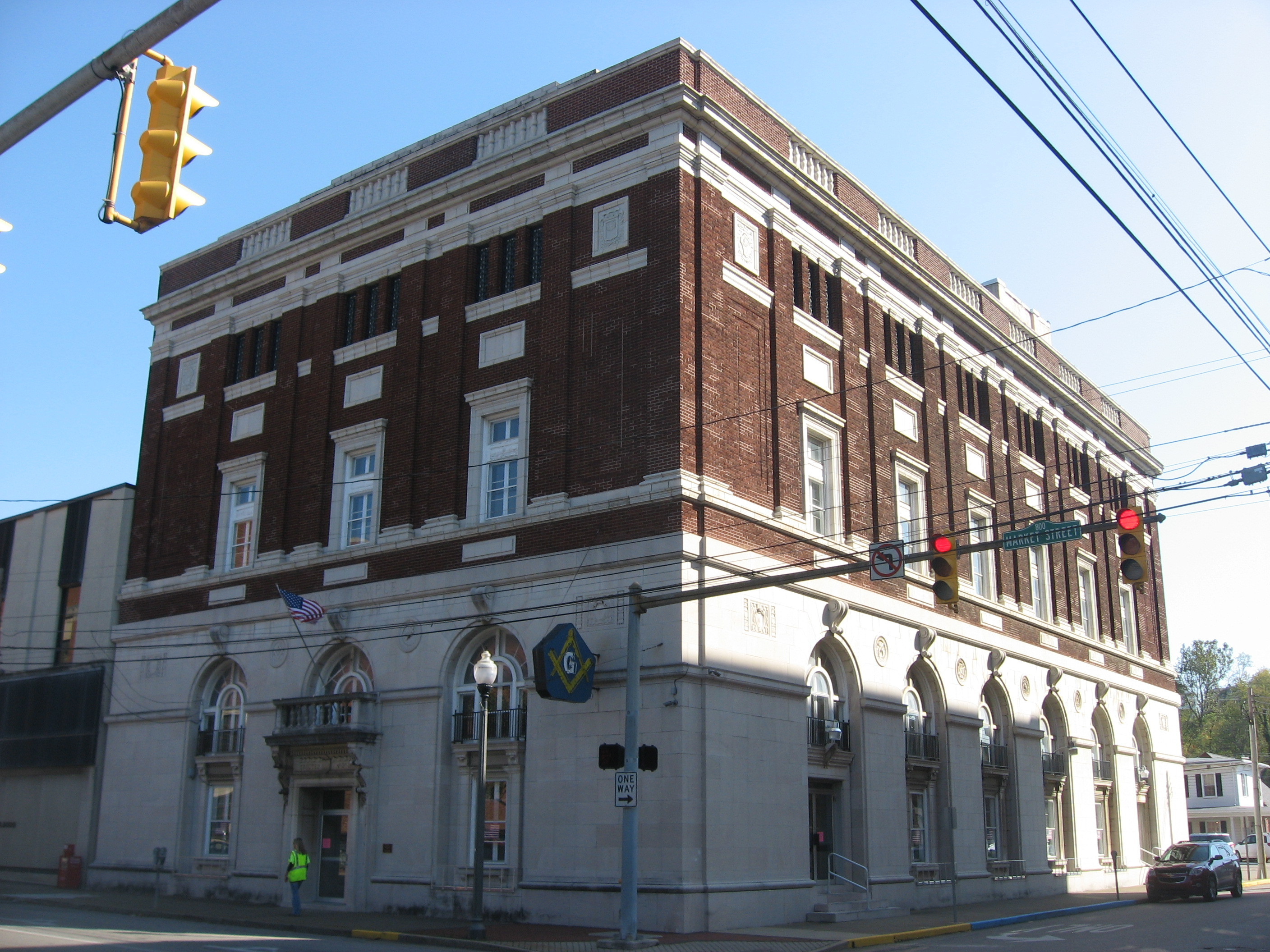 Front and southern side of the Parkersburg Masonic Temple, located at 900 Market Street in Parkersburg, West Virginia, United States. Built in 1915, it is listed on the National Register of Historic Places.